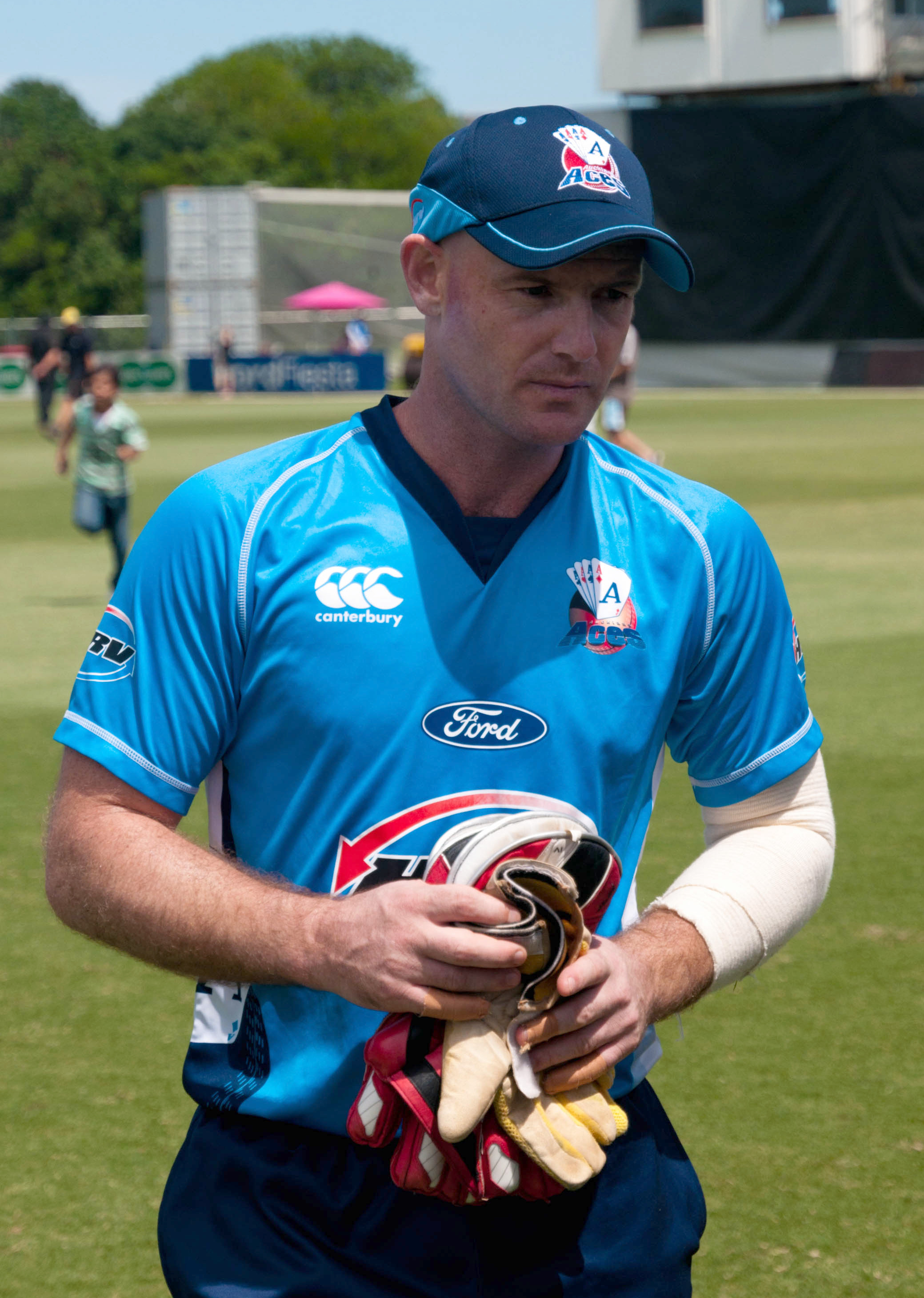 untitled